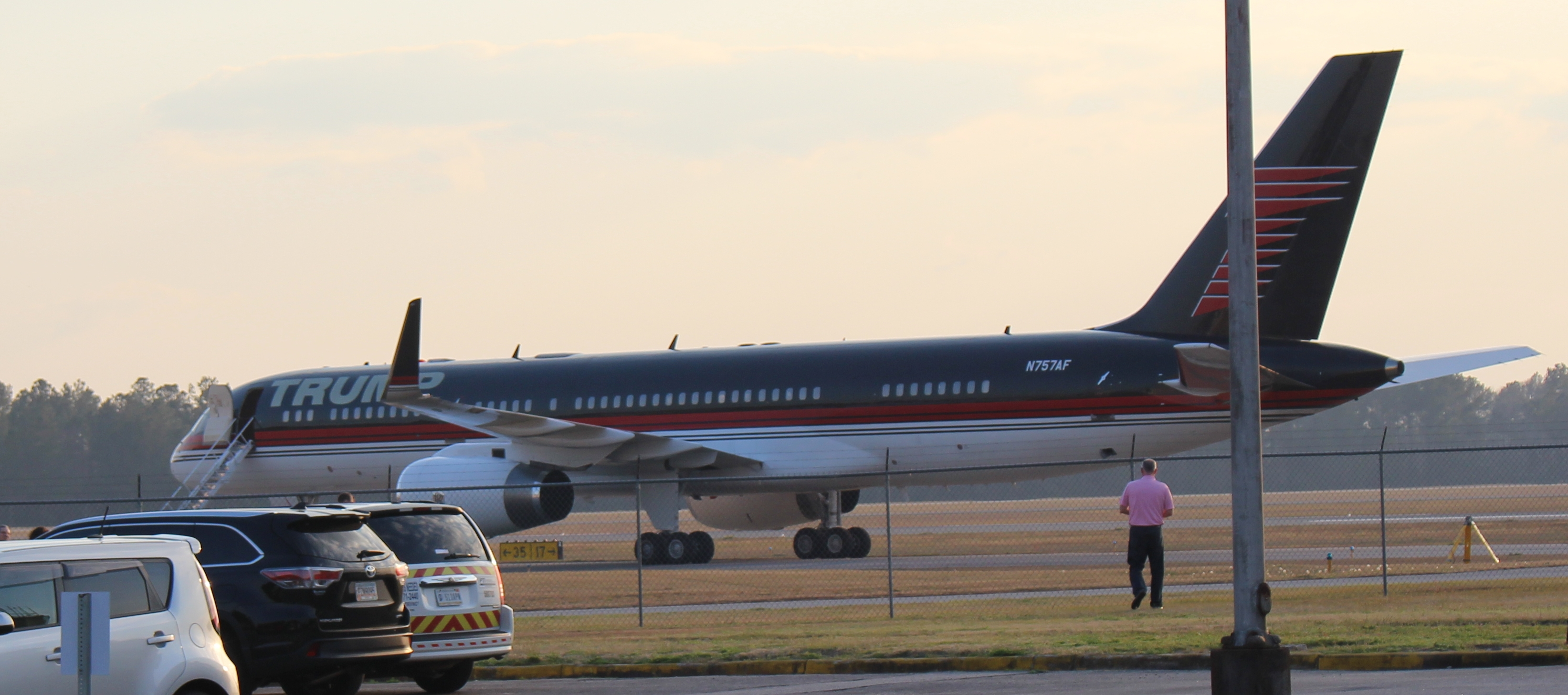 Trump Force One at the Valdosta Regional Airport during his rally at Valdosta State University 2/29/2016.